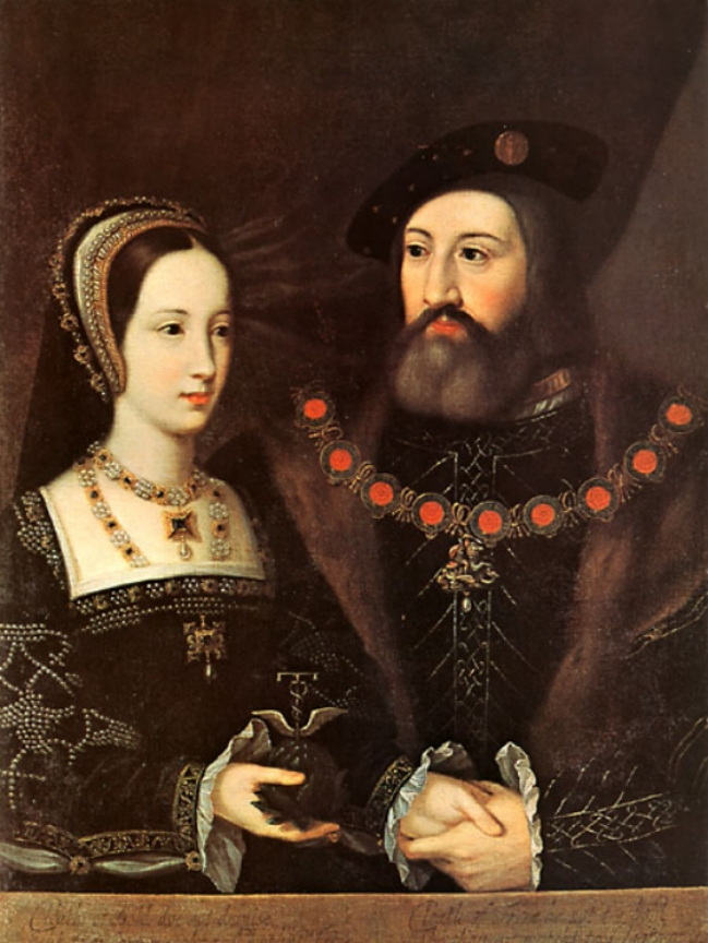 This is the original painting of Mary Tudor and Charles Brandon's wedding portrait by Jan Mabuse in the collection of the Earl of Yarborough; Brocklesby Park, Lincolnshire. There exist several copies.